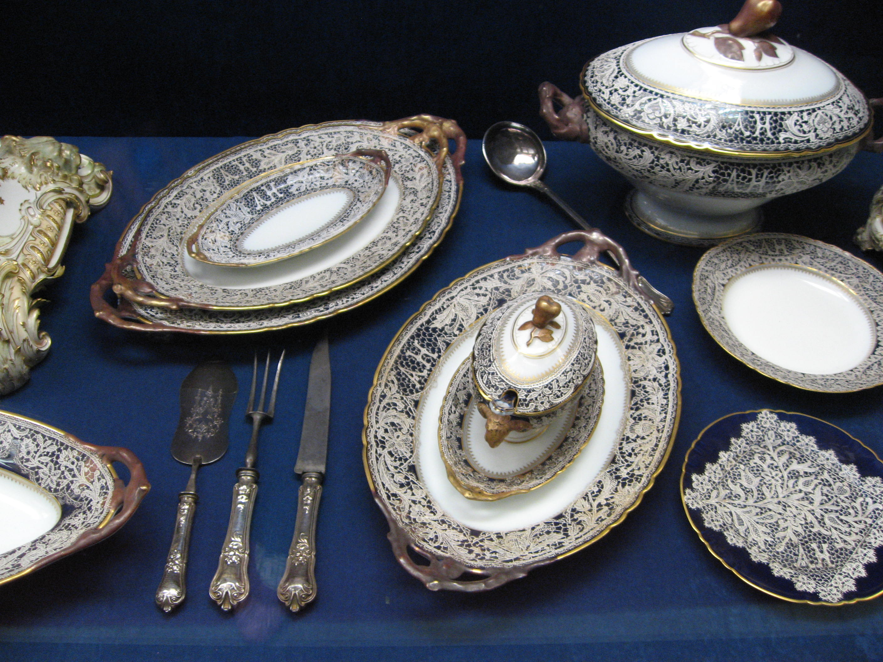 Parts of the Valuable Collection (Değerli Eşyalar) in Dolmabahçe Palace.